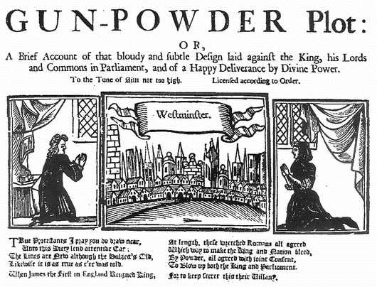 A broadside ballad released in the late-seventeenth or early-eighteenth century detailing the plot with anti-Catholic sentiments. Opening text of the broadside ballad is as follows: True Protestants I pray you do draw near Unto this ditty lend attentive ear, The lines are new although the subject's old Likewise it is as true as e'er was told. When James the First in England reigned King, [...]